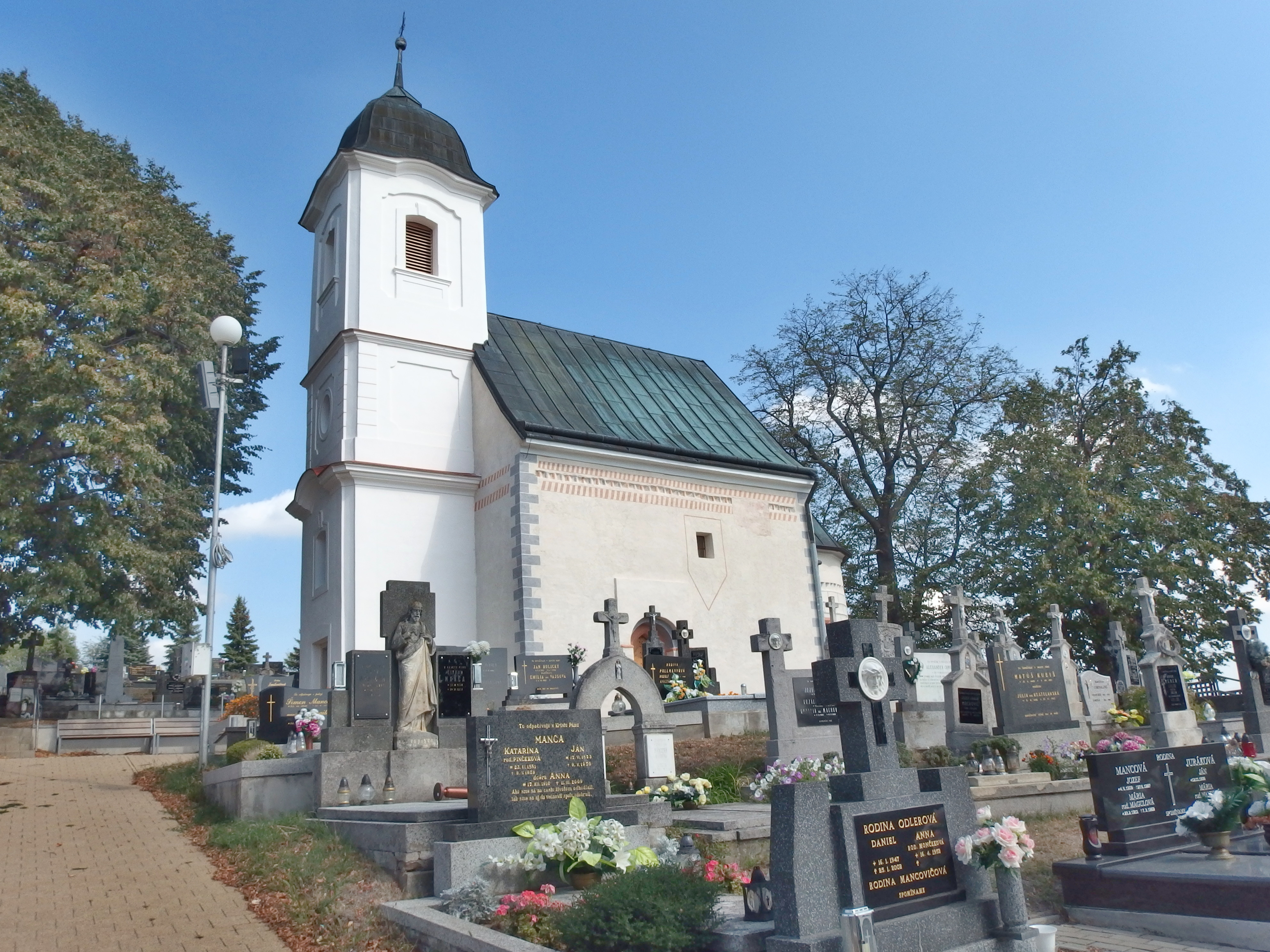 Dechtice, Trnava District, Slovakia. All Saints church.